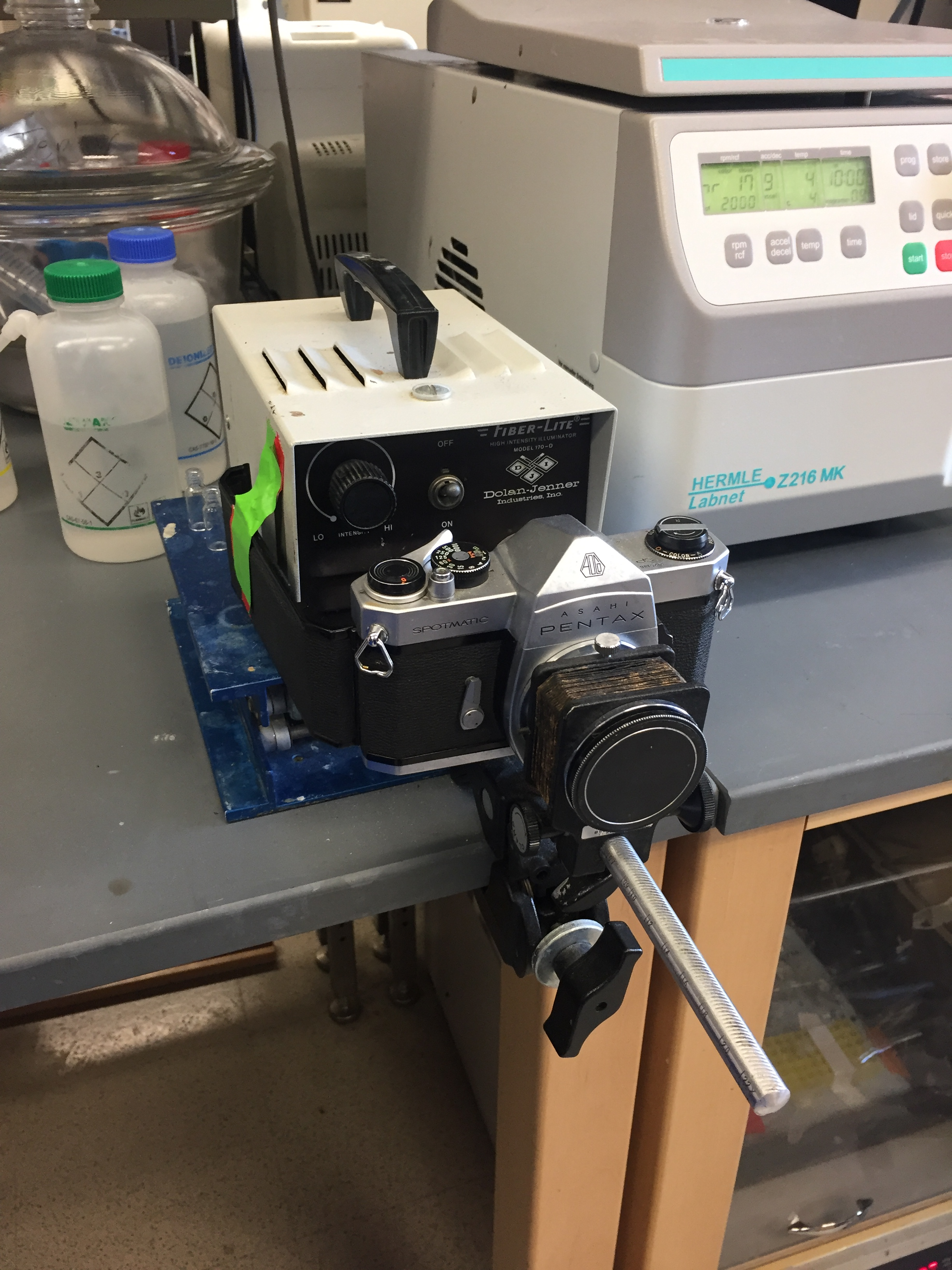 This apparatus irradiates the PCR tube with the reagents and the protein of interest.